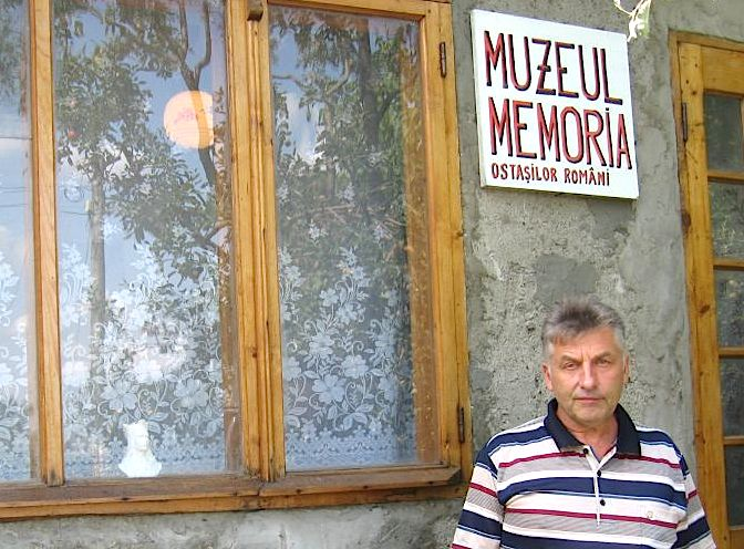 Memoria